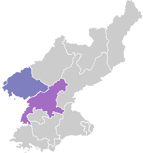 area map of North Pyongan province and South Pyongan province of North Korea.